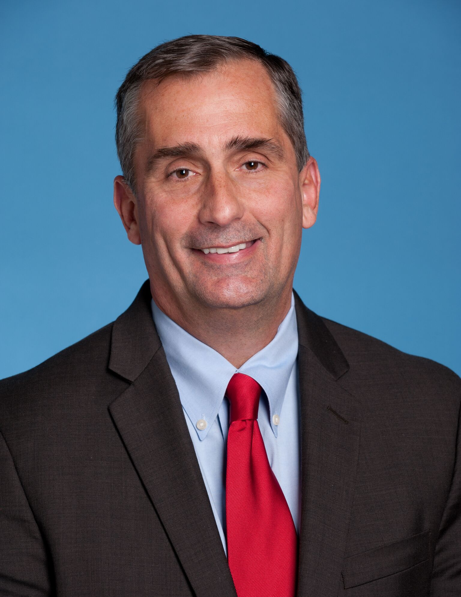 Head shot of current Intel CEO Brian Krzanich